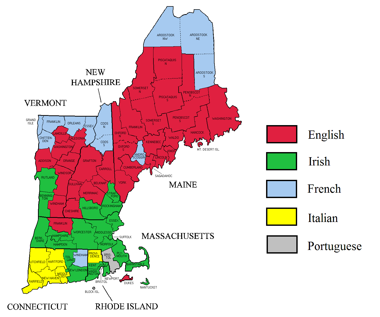 Largest self-reported ancestry groups in the six New England states. Data from 2000 census.